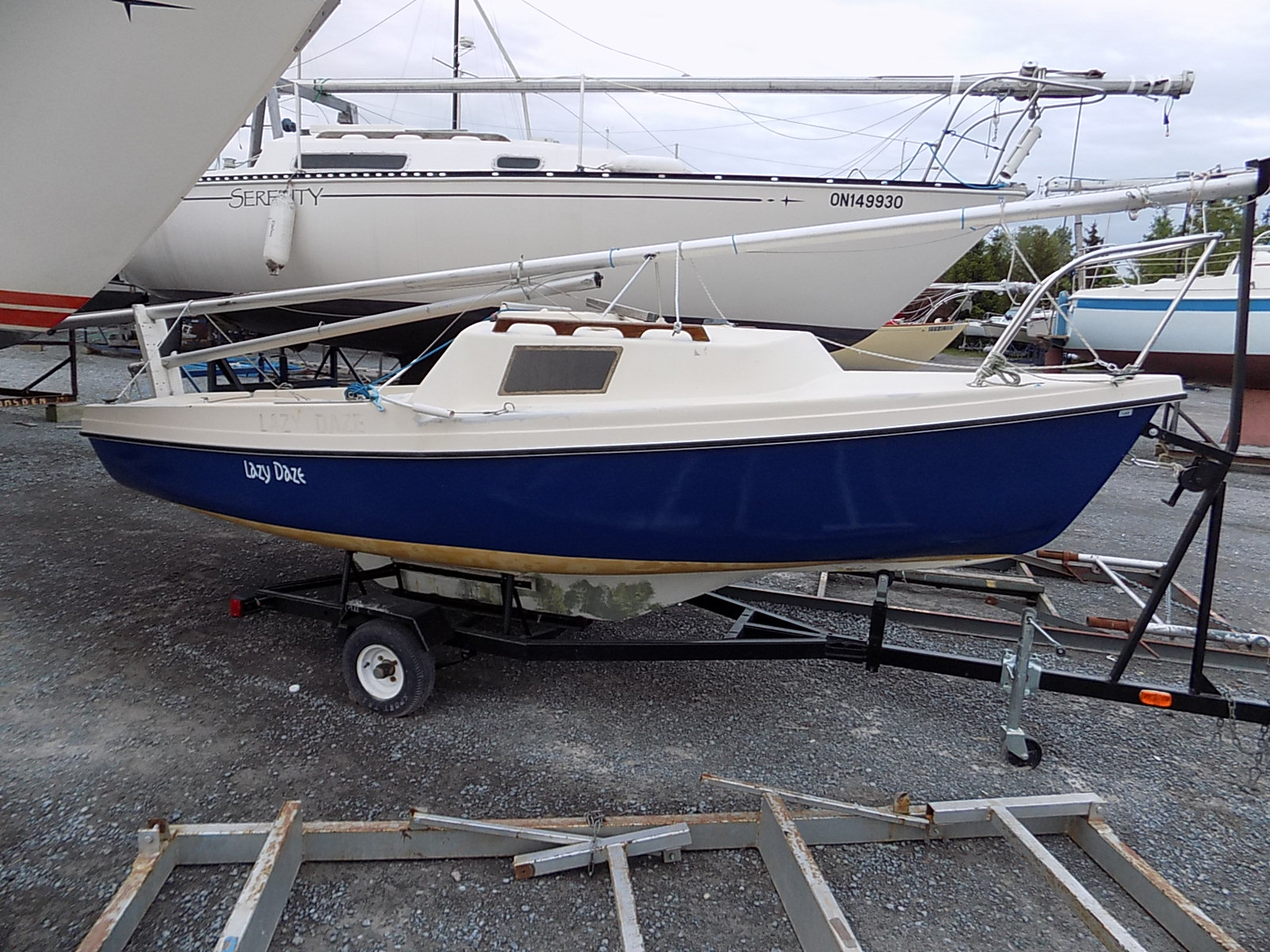 A Diller Schwill DS-16 sailboat named Lazy Daze